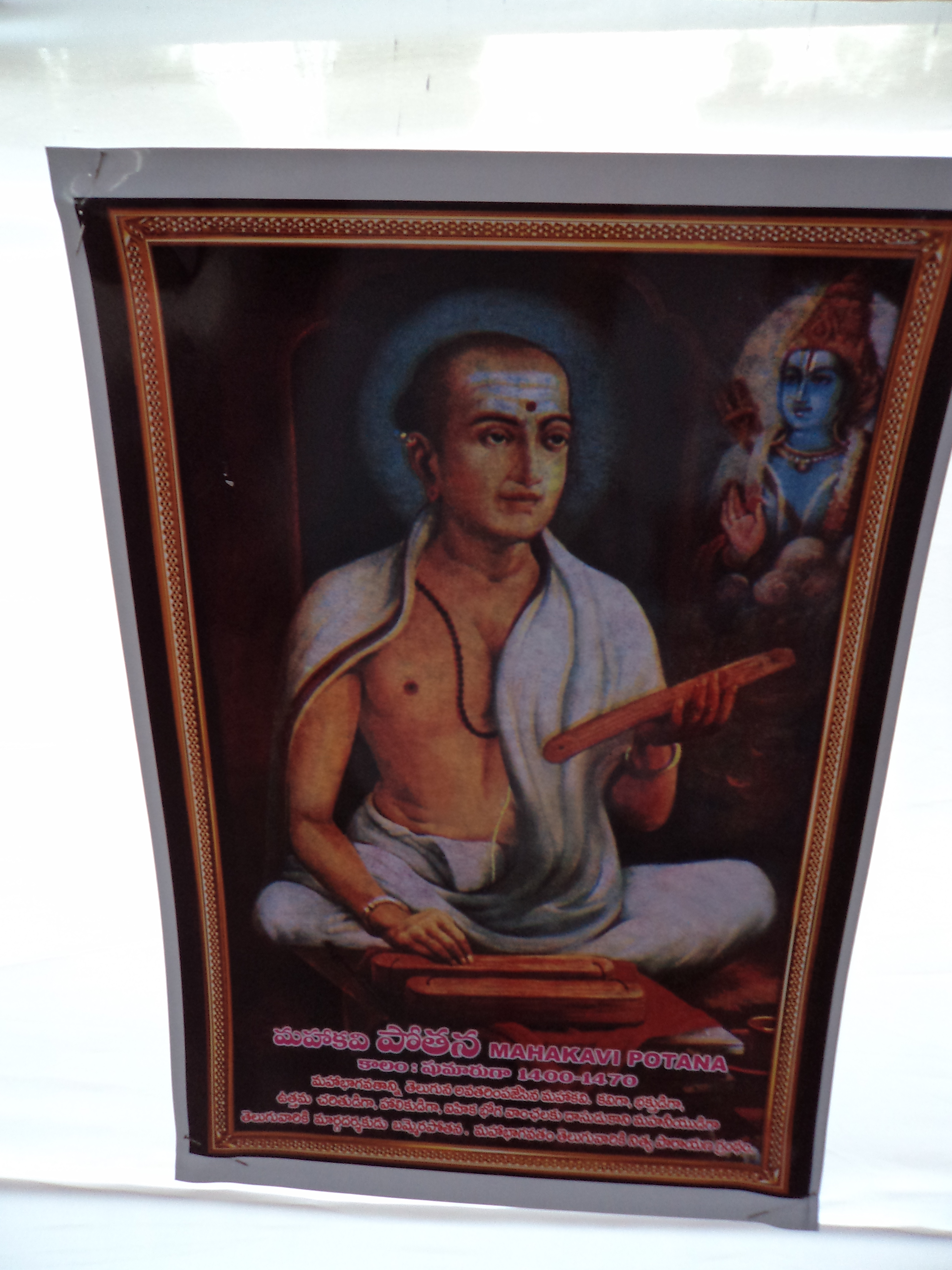 Portrait of Pothana